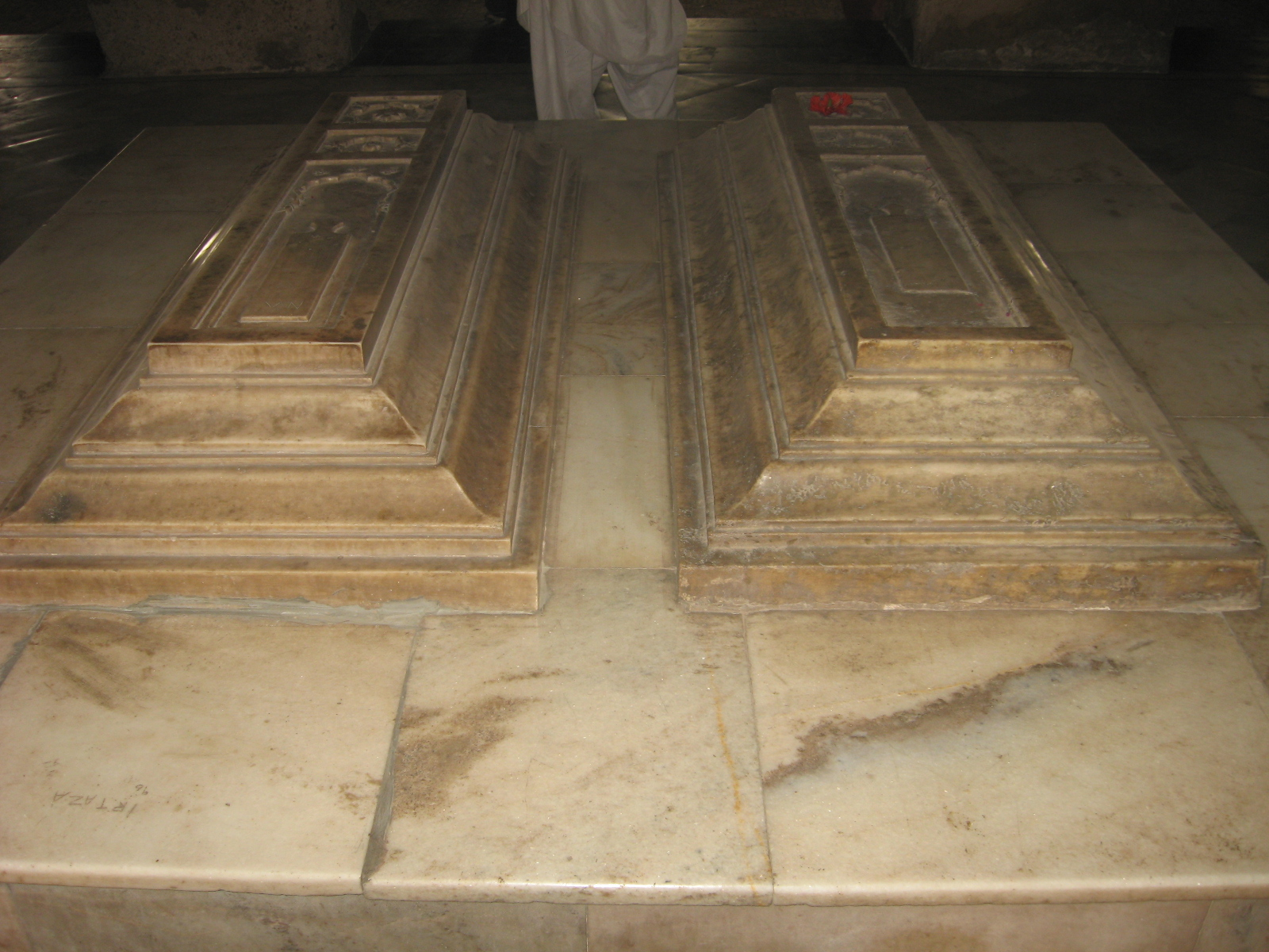 Cenotaph of the Tomb of Nur Jahan in Lahore, Punjab.